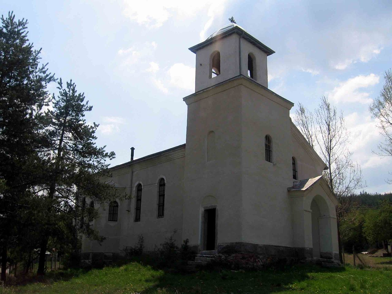 The church in village Gabra, Bulgaria